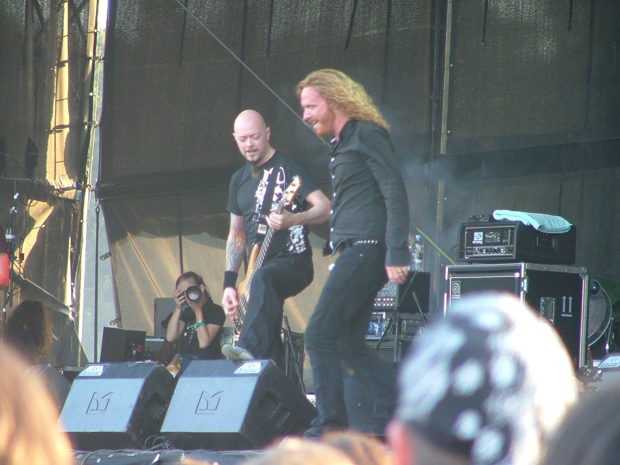 Swedish melodic death metal band Dark Tranquillity at the Summer Breeze in Dinkelsbühl